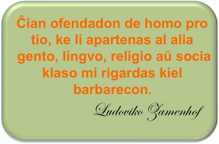 über Barbarismus